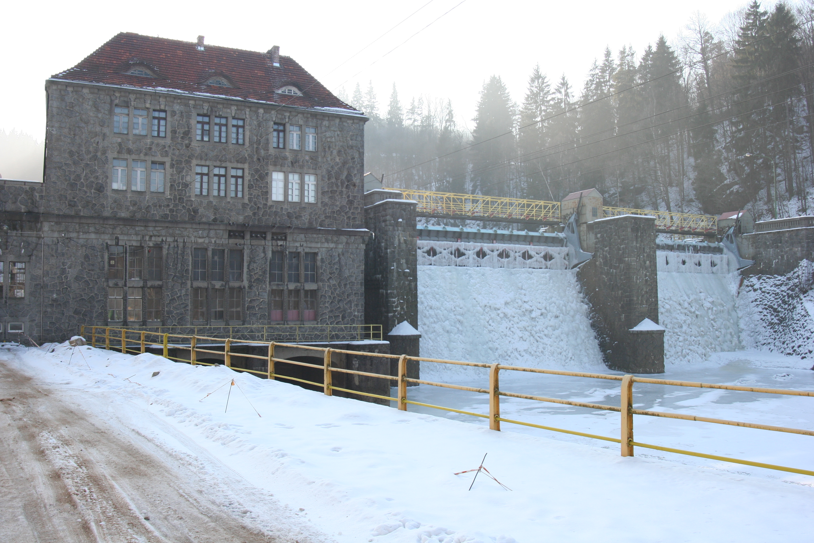 Dam (Bobrowice I) on Jezioro Modre (German Talsperre Boberröhsdorf) - Bóbr river near, Siedlęcin, Lower Silesia, Poland.